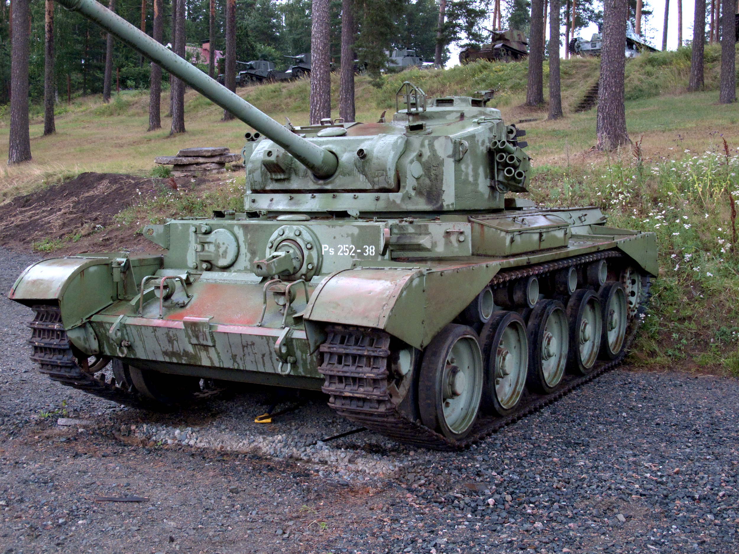 British tank Comet in museum in Parola (Finland)